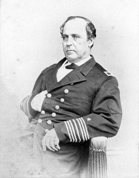 Circa 1868-1870 sepia albumen photo of Glisson showing him either as an Commodore (he achieved that rank in 1866) or as an Rear Admiral (he achieved that rank in 1870)